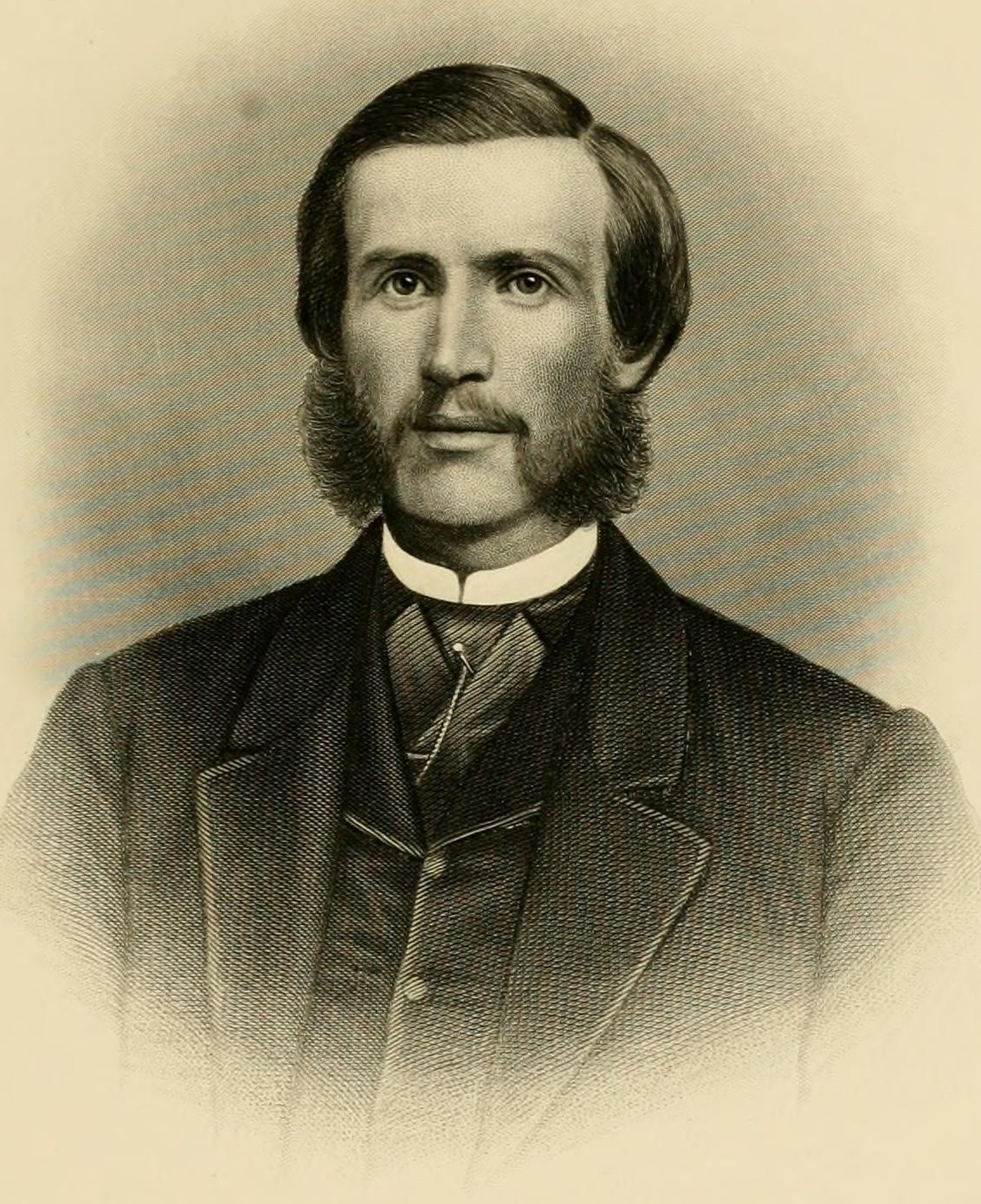 Benjamin Hinman Steele (Vermont Supreme Court Justice)